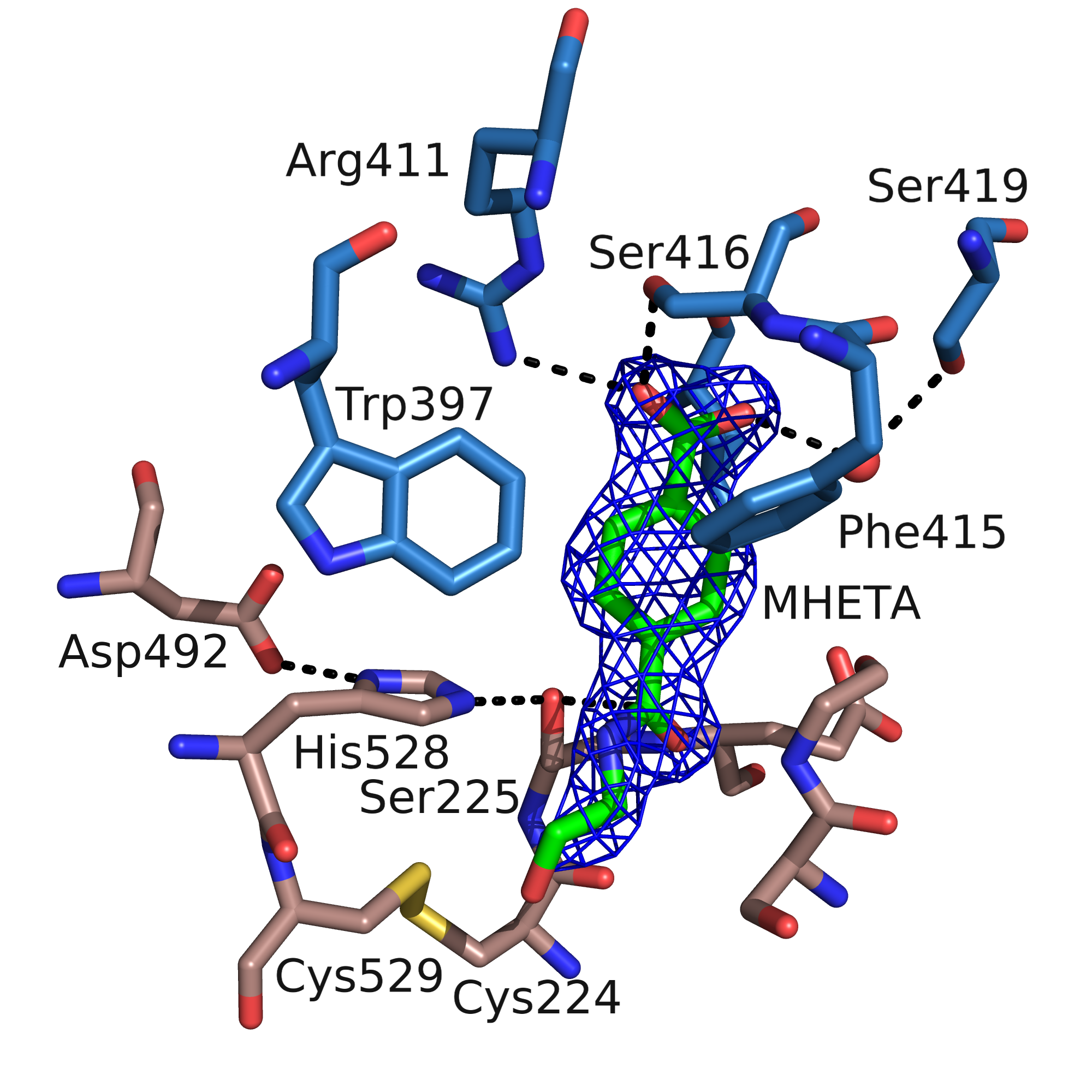 MHETA bound to MHETase. Short distances of MHETA to the catalytic triad (part of the red colored hydrolase domain) and to the ligand binding site (part of the lid domain) are shown in dashed lines. Electron density at 1.5 sigma for MHETA is shown in blue.